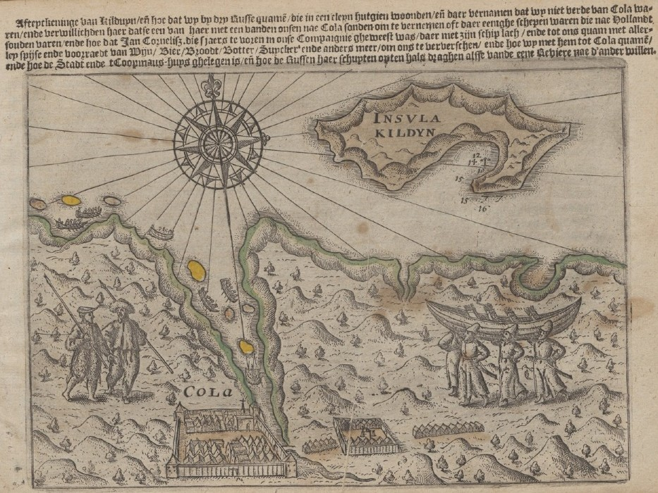 Illustration from Gerrit de Veer - Waerachtighe beschryvinghe van drie seylagien - edition published in 1605